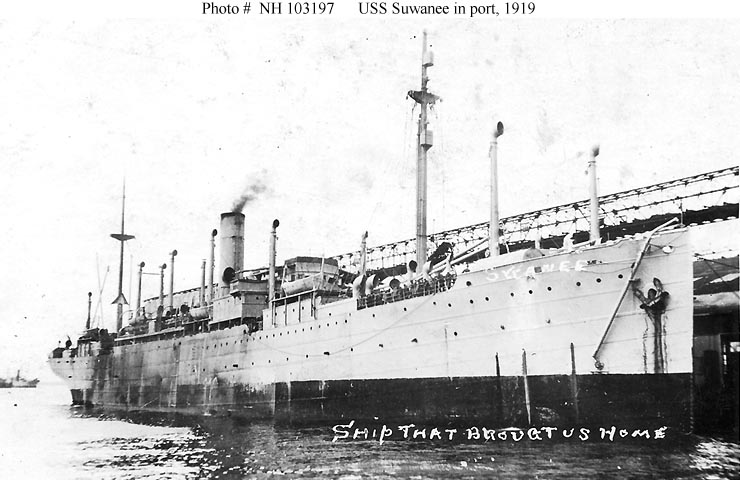 United States Navy troop transport USS Suwanee (ID-1320)